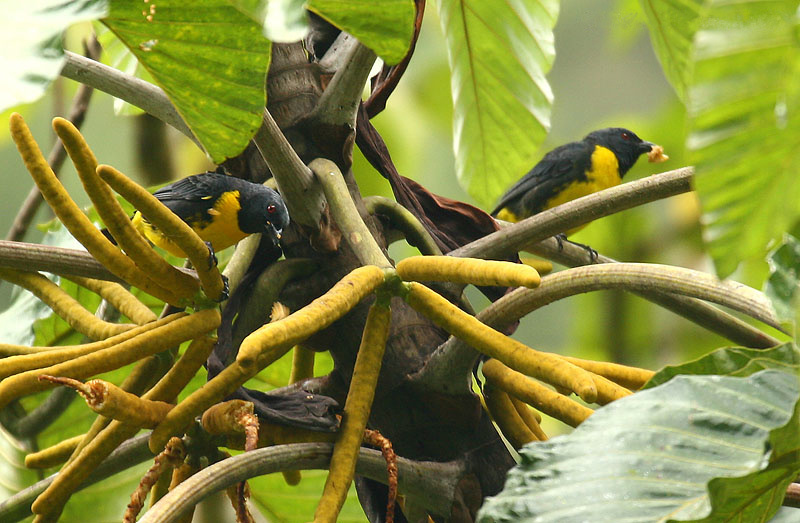 Blue-and-gold Tanager (Bangsia arcaei) at Virgen del Socorro, Costa Rica, Caribbean foothills.